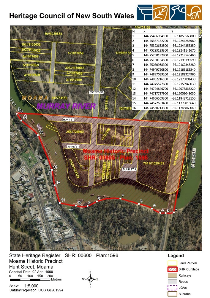 Moama Historic Precinct: SHR Plan 1596